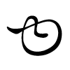 音韻「ゆ」のひらがなの一種。Kzhr作成。CC-By-Sa-2.5によって提供される。 One of the letter of the phoneme "ゆ". Kzhr's File.